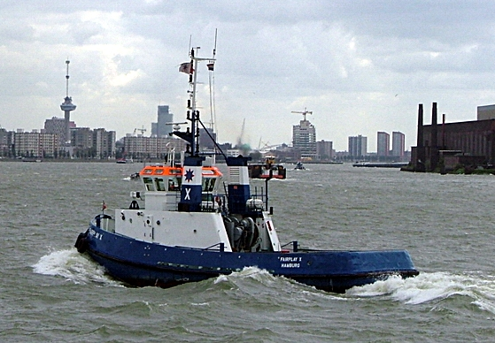 Author: Frederic Logghe 1996-2005 MDA Photo Library Released under the GFDL with author's permission.